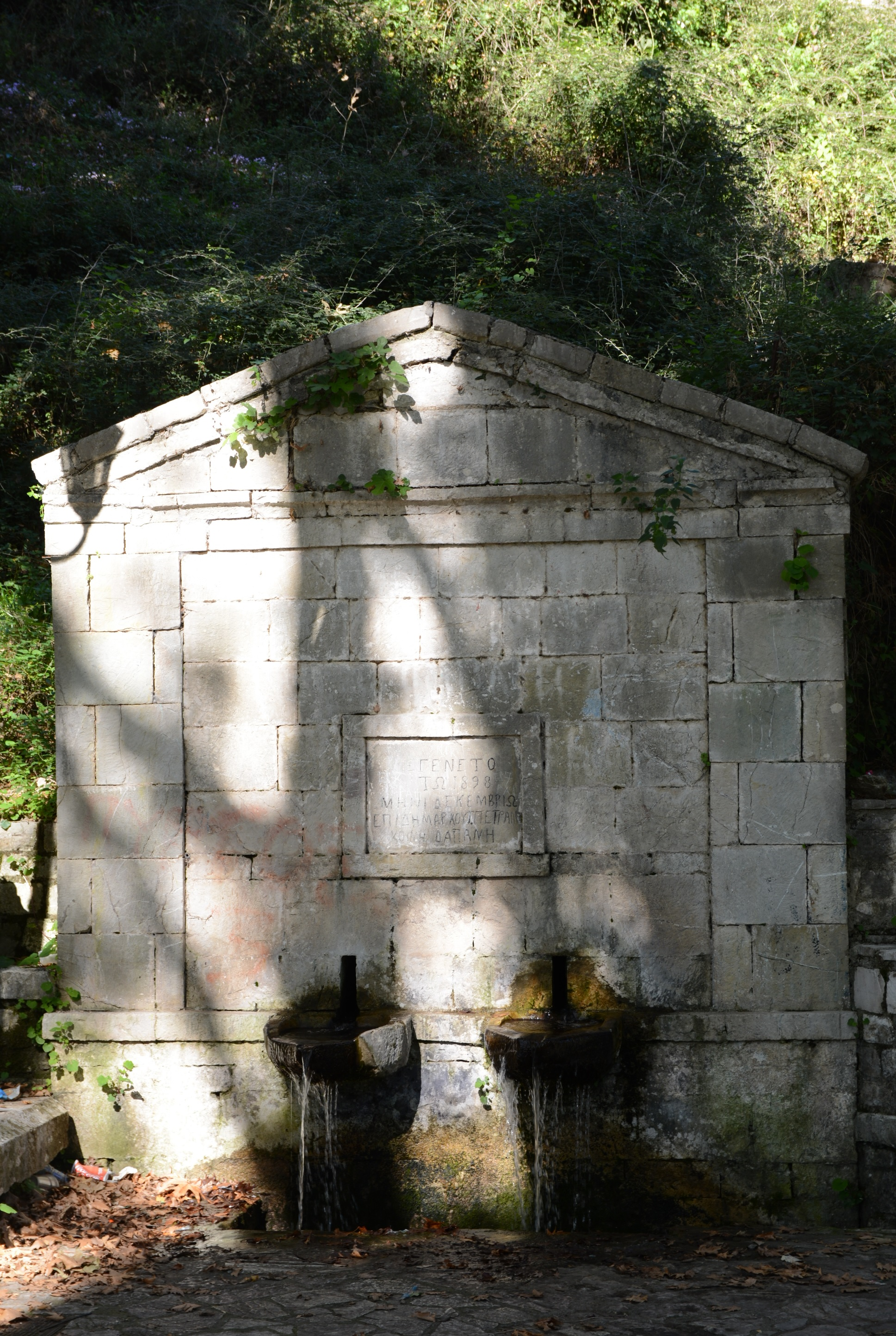 "Morios" fountain, Lampeia (Divri), Ileia, Greece.«Κοινοτική βρύση Μοριός Ηλείας»